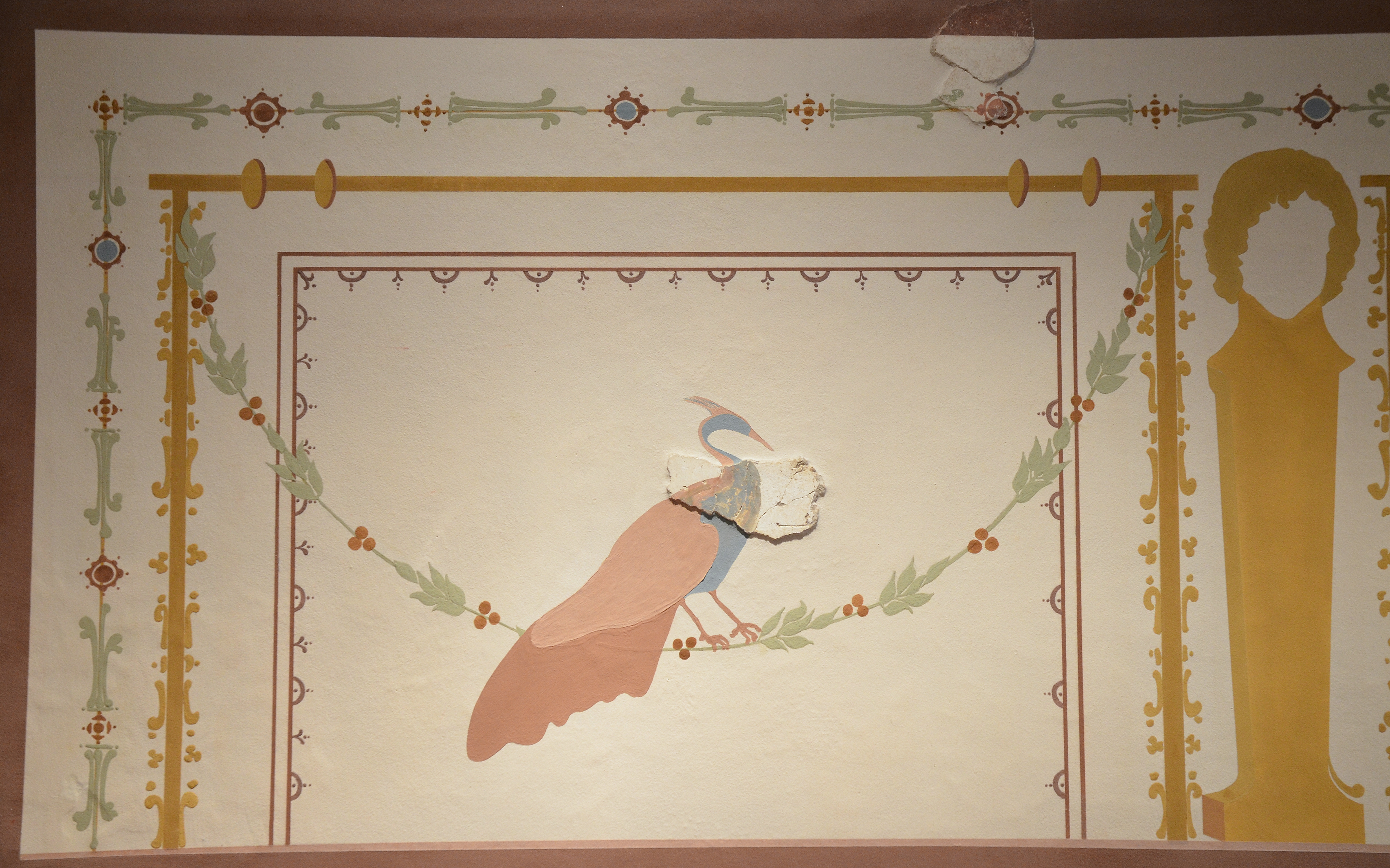 Reconstructed ancient Roman wall painting in Atuatuca Tungrorum (Tongeren). This wall painting, reconstructed from fragments, decorated the most important room of a luxurious town house. Collection of Gallo-Romeins Museum, Tongeren, Belgium.